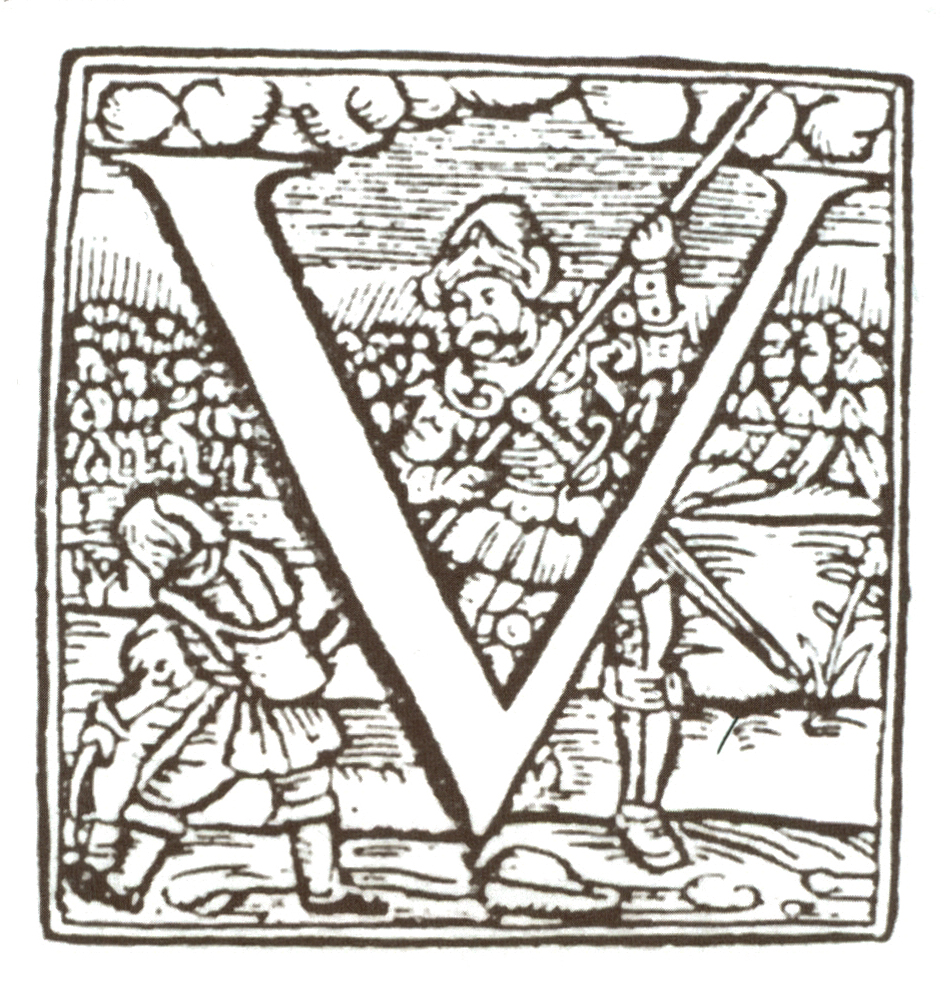 Initial from the book of Kultsár by Rudolf Hoffhalterlabel QS:Len,"Initial from the book of Kultsár by Rudolf Hoffhalter"label QS:Lhu,"Iniciálé Kultsár György könyvéből, Hoffhalter Rudolf nyomdász munkája"